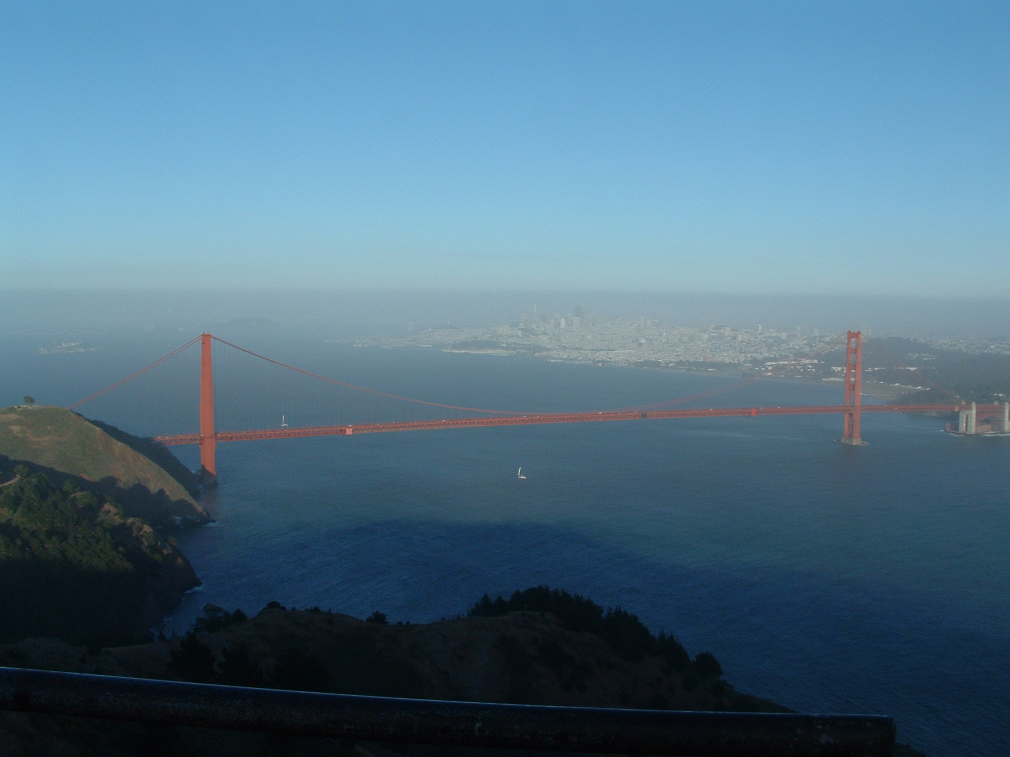 The Golden Gate isthmus, and Golden Gate Bridge crossing over it (view east) View from Fort Baker within the Marin Headlands, in Marin County. San Francisco is in distance on right.